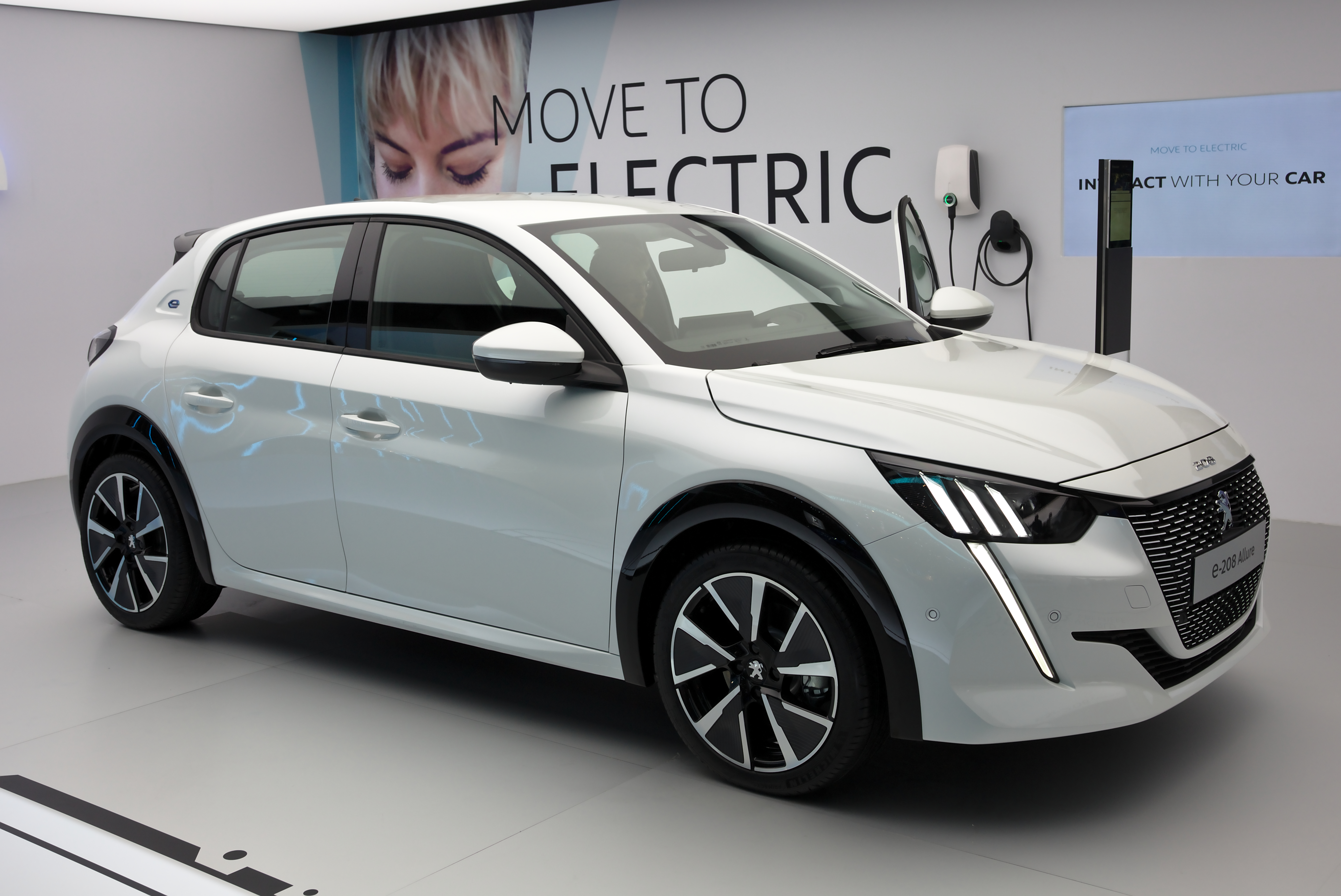 Peugeot e-208 Allure at Geneva Motor Show 2019